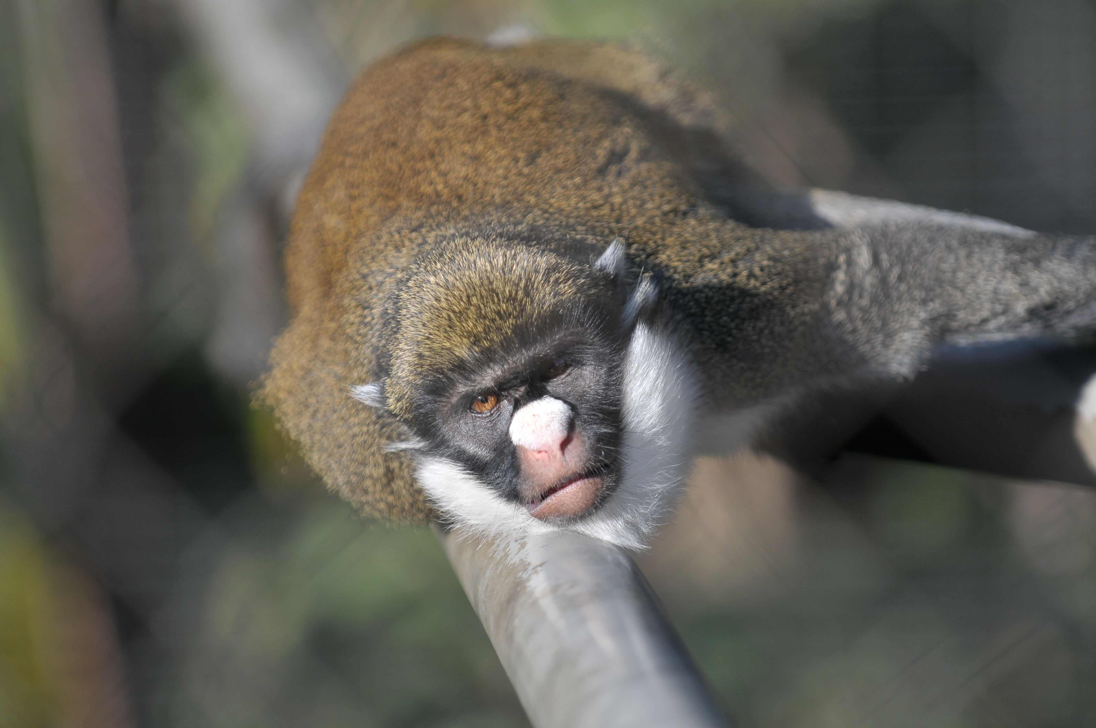 Lesser Spot-nosed Guenon (Cercopithecus petaurista) in San Diego Zoo